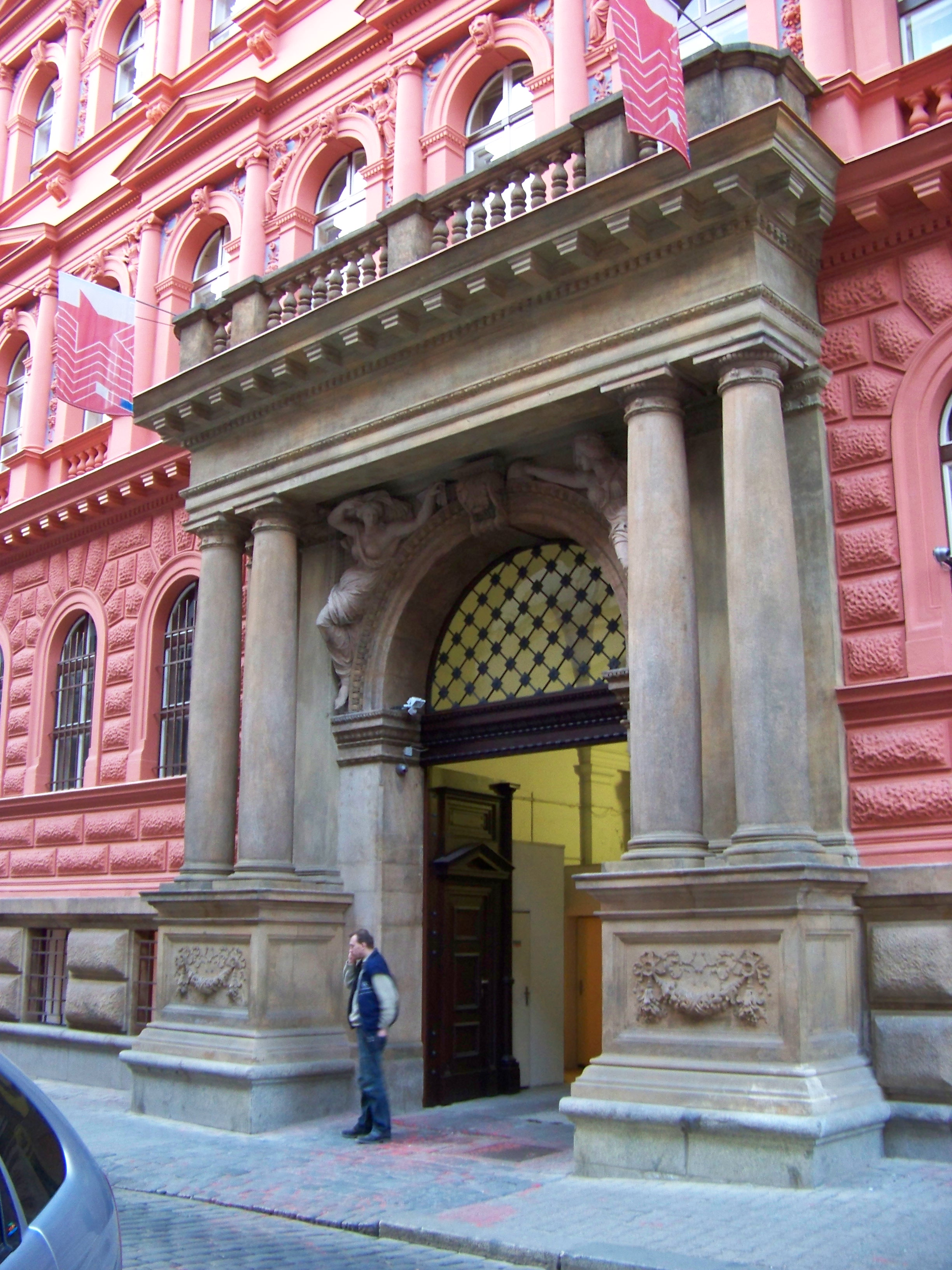 Prague-New Town, the Czech Republic. Politických vězňů 9.